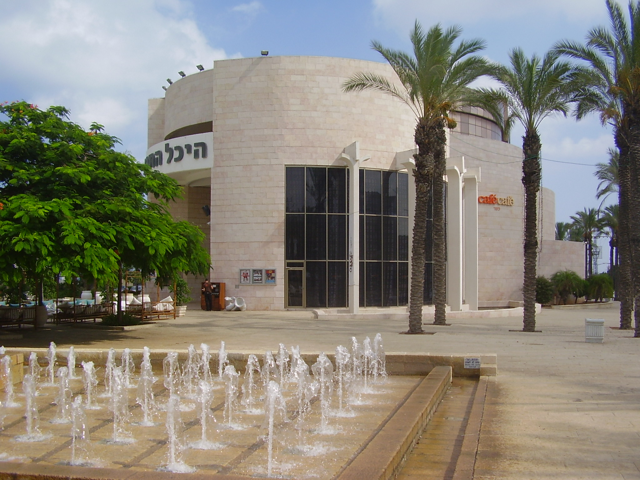 Performing Arts Center in Ashkelon